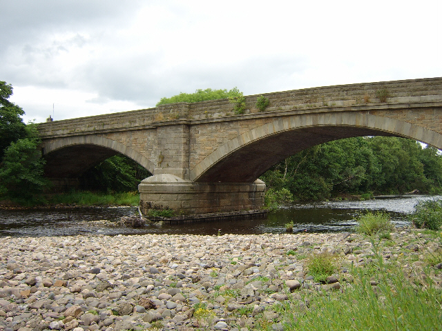 The bridge over the South Tyne at Warden.